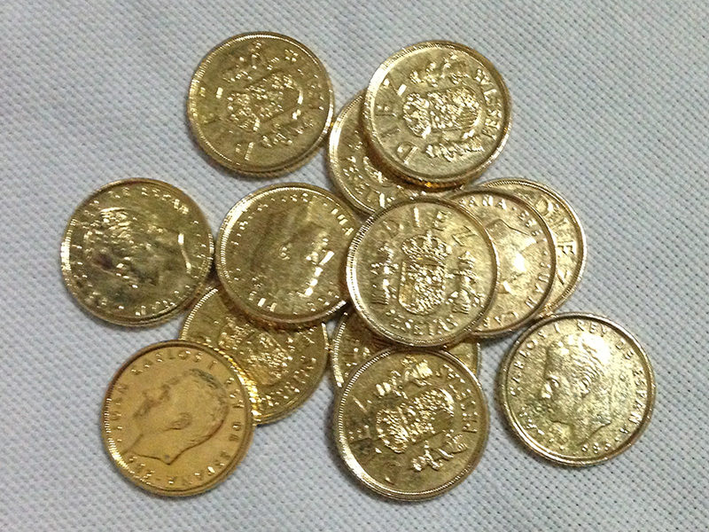 13 wedding tokens, gold, - Las arras, or Las arras matrimoniales (